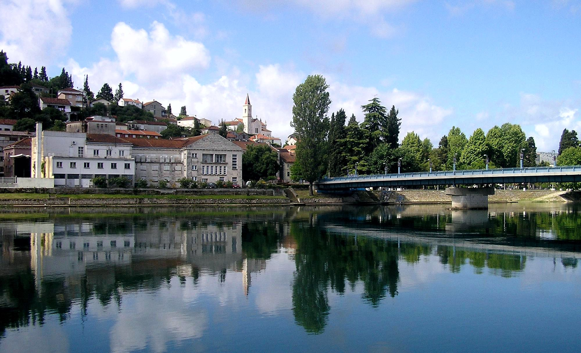 Theatre building and Harbor bridge in Metković, Croatia